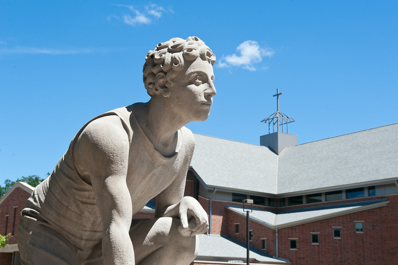 This is a photo of the Sprinter statue at Martin Luther College in New Ulm, MN. The statue was originally donated to Northwestern College of Watertown, WI, in 1911.